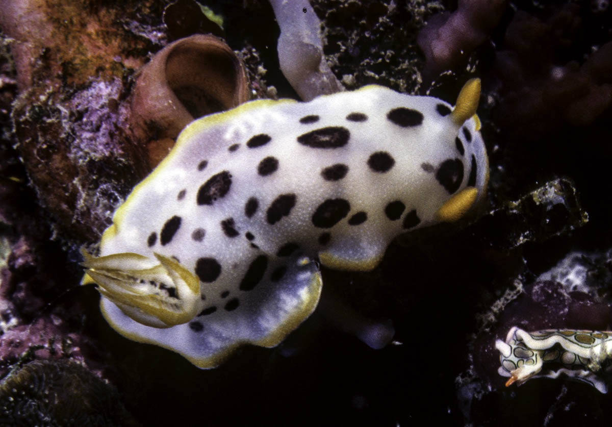 The nudibranch Chromodoris orientalis, Mirs Bay, Hong Kong.